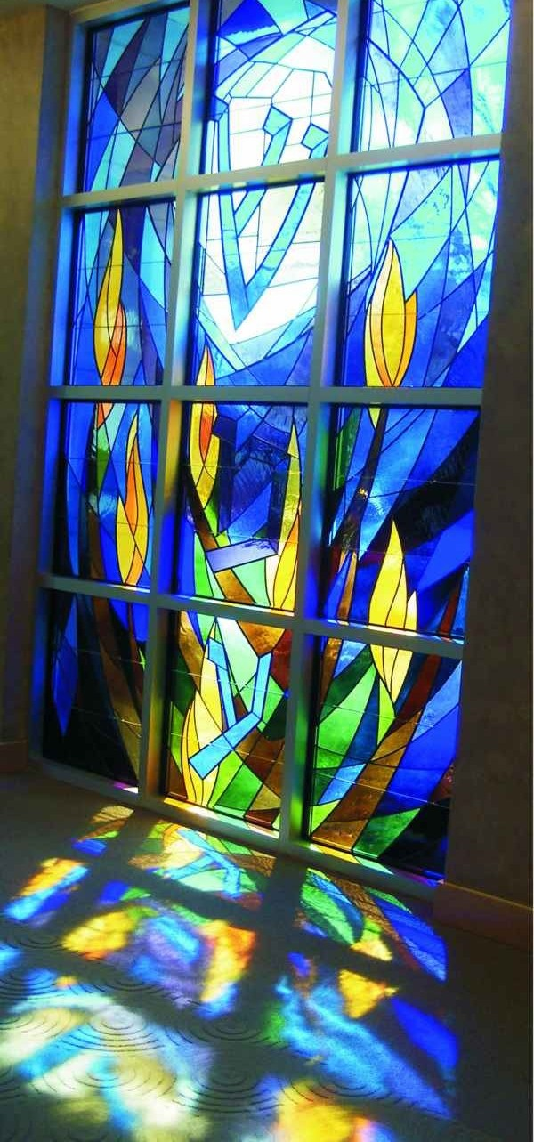 Stained glass window by artist David Ascalon, Ascalon Studios, for Beth El Congregation, Bethesda, Maryland